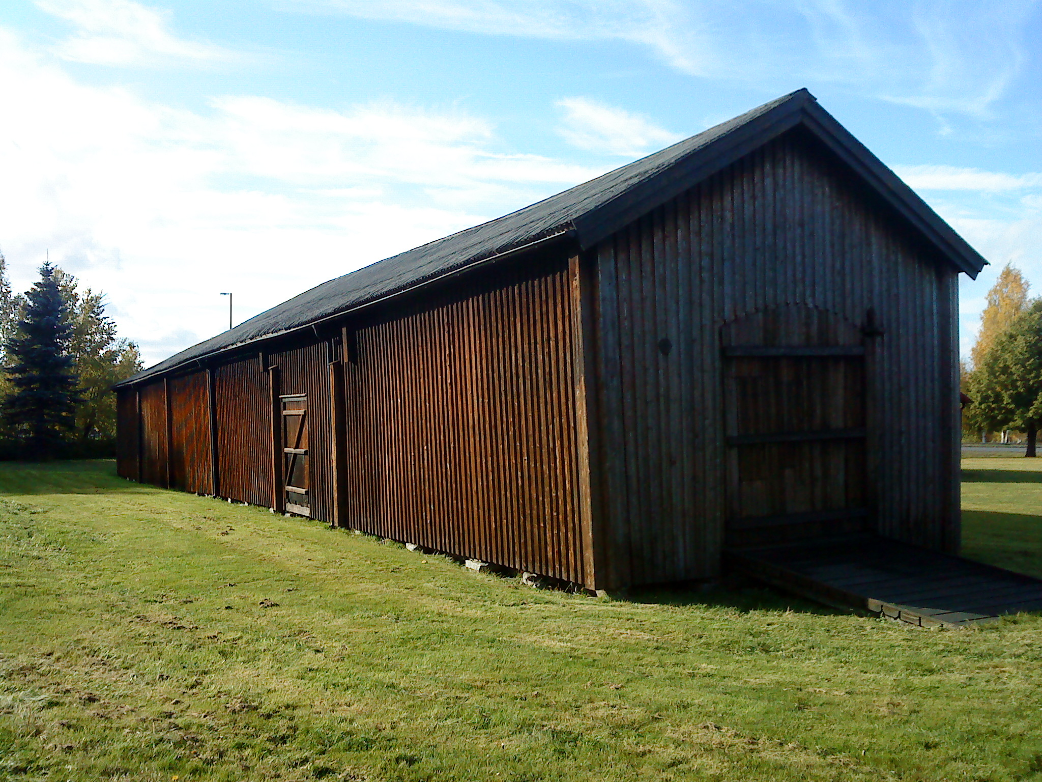 The long barn at Anderstorp, Skellefteå.